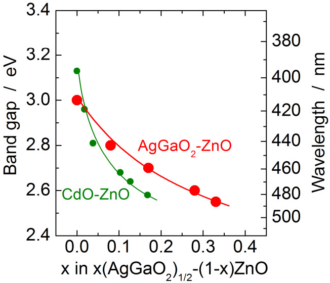 Variation of optical band gap of the (1 − x)ZnO–x(AgGaO2)1/2 alloys (red dots and line) as a function of the alloying level, x, together with that reported for the (1 − x)–xCdO alloys (green dots and line) for comparison.